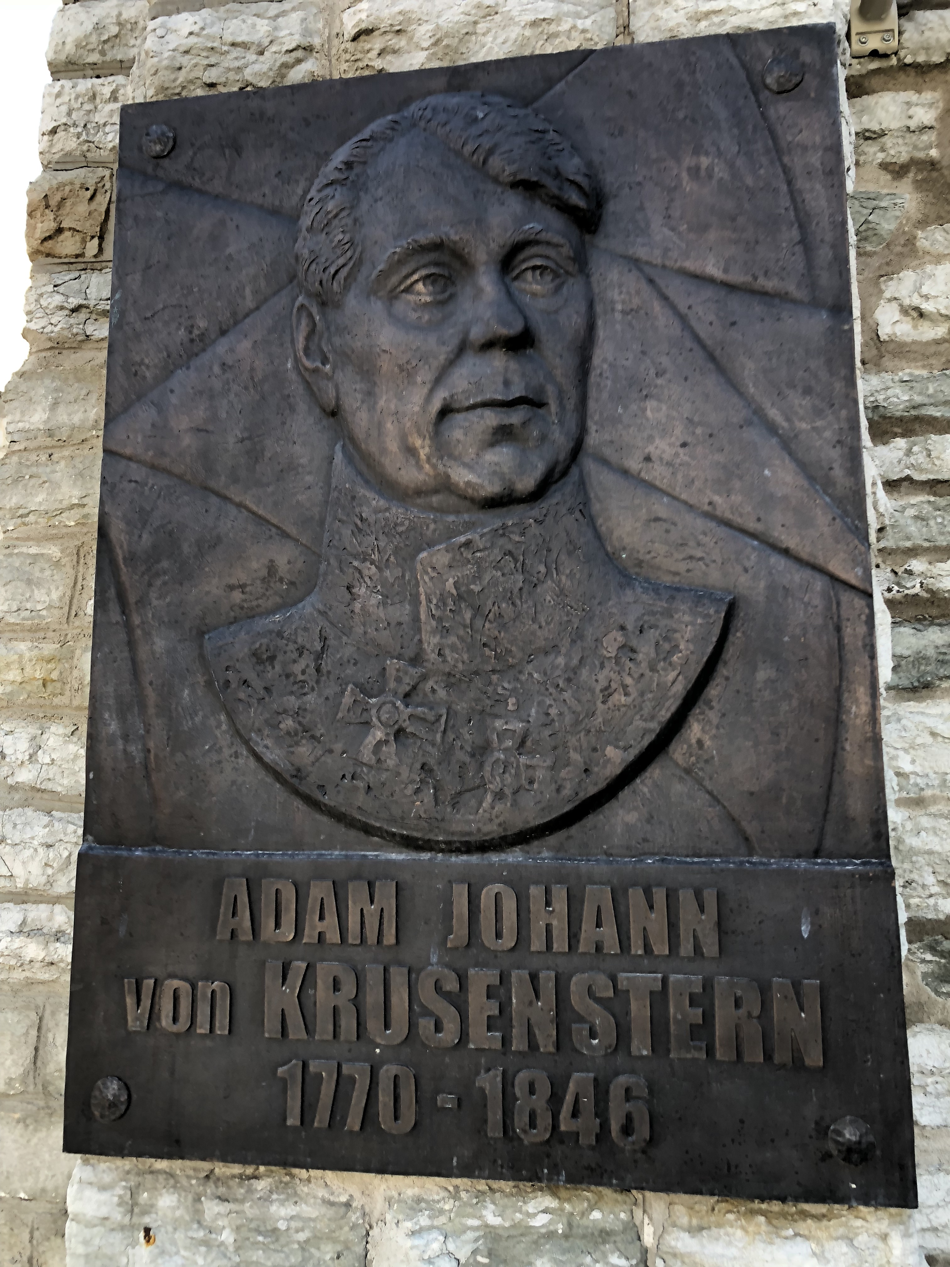 Adam Johann von Krusenstern, Adam Johann von Krusenstern Square, Aime Kuulbusch-Mölder, Uus Monumentaal OÜ